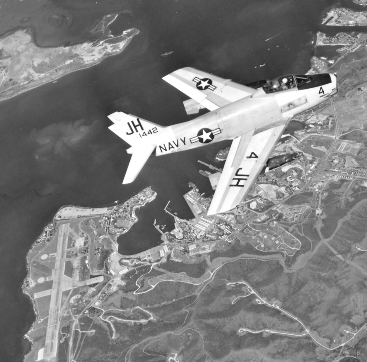 A U.S. Navy North American FJ-3M Fury (BuNo 141442) of Utility Squadron VU-10 flies over McCalla Field, Guantanamo Bay, Cuba, in 1962.